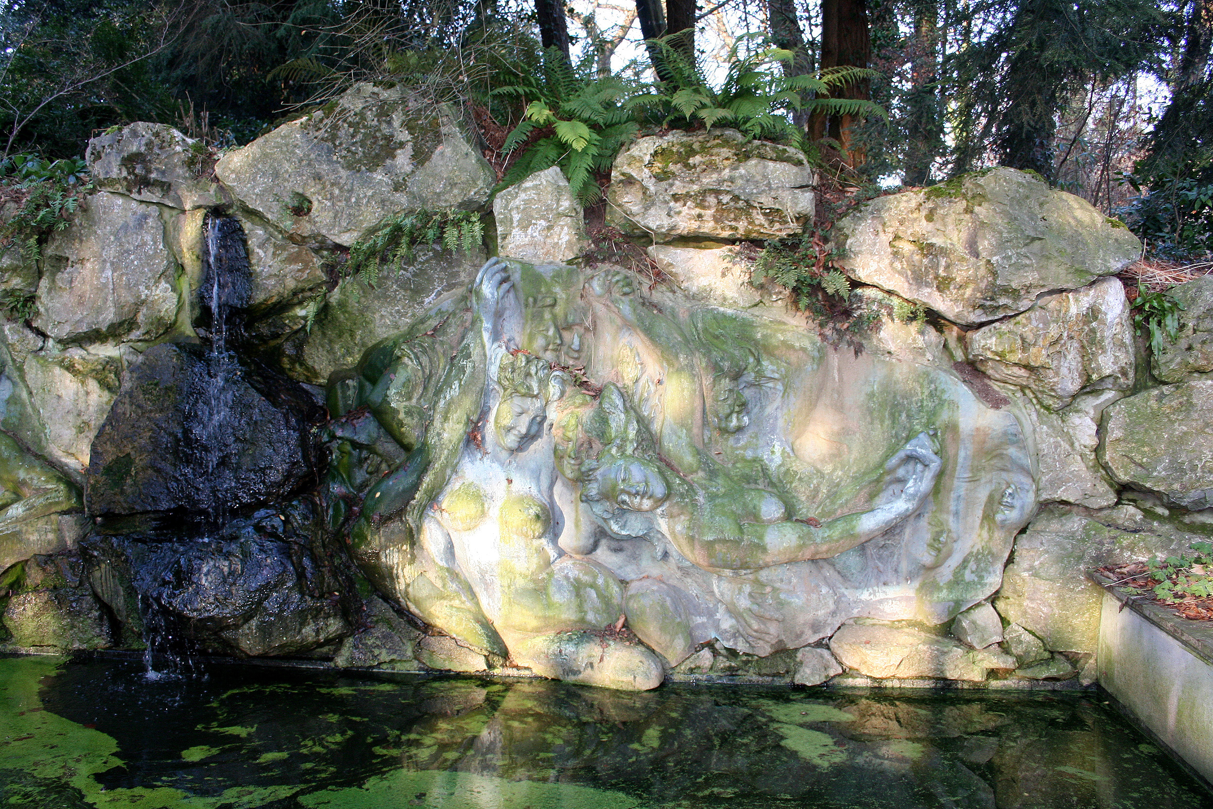 Morlanwelz-Mariemont (Belgium), La Joie (The Joy) bas-relief by Jef Lambeaux (1852-1908).